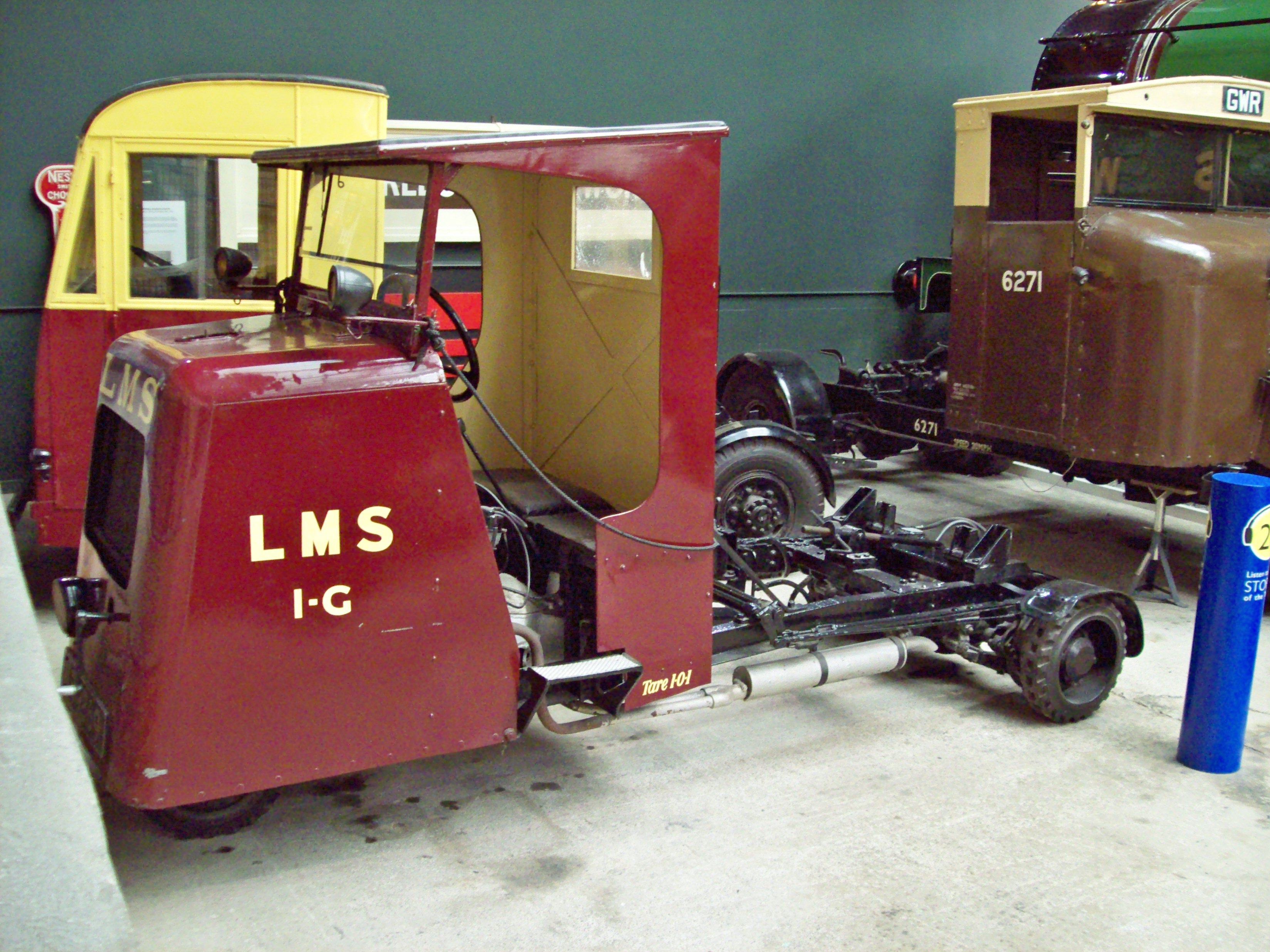 1930 Karrier Cob mechanical horse (DVLA) UR9869 National Rail Museum, York 11 April 2010